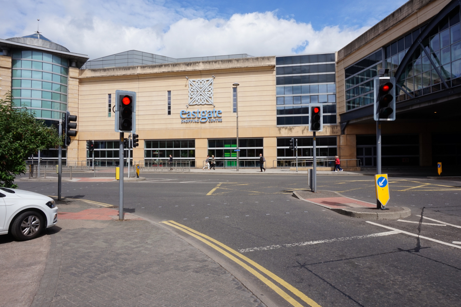 Eastgate Shopping Centre, Inverness